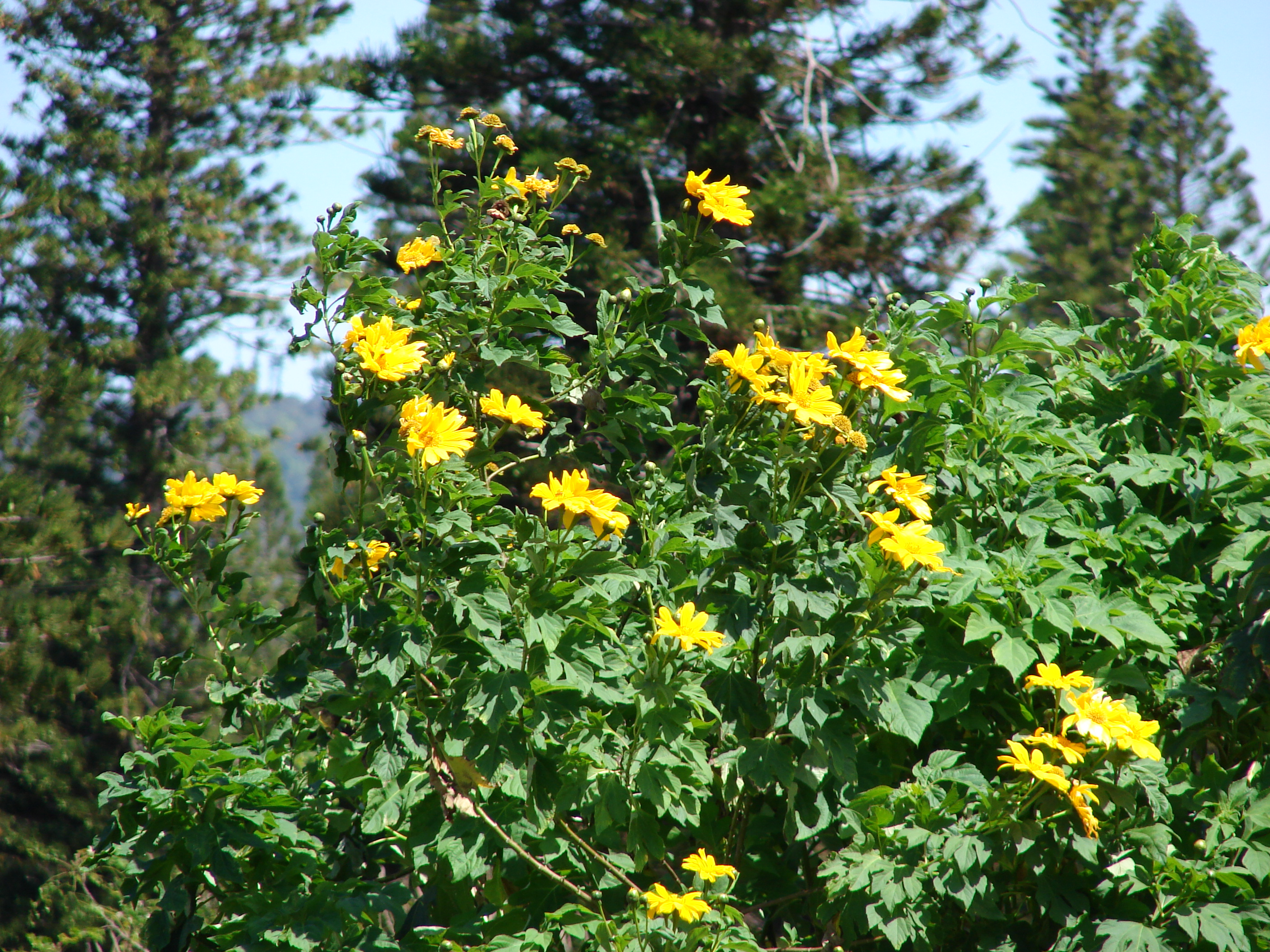 Tithonia diversifolia (flowering habit). Location: Lanai, Lanai City